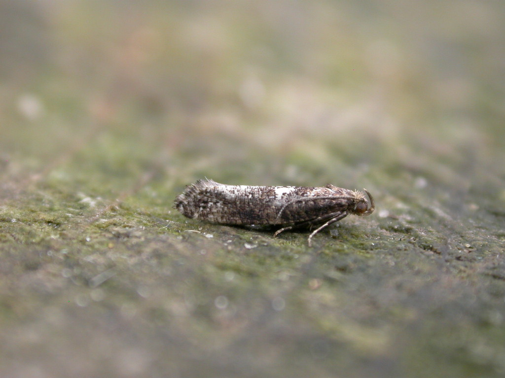 Acrolepiopsis assectella, to MV light, Hellerup, Denmark, 29 July 2005